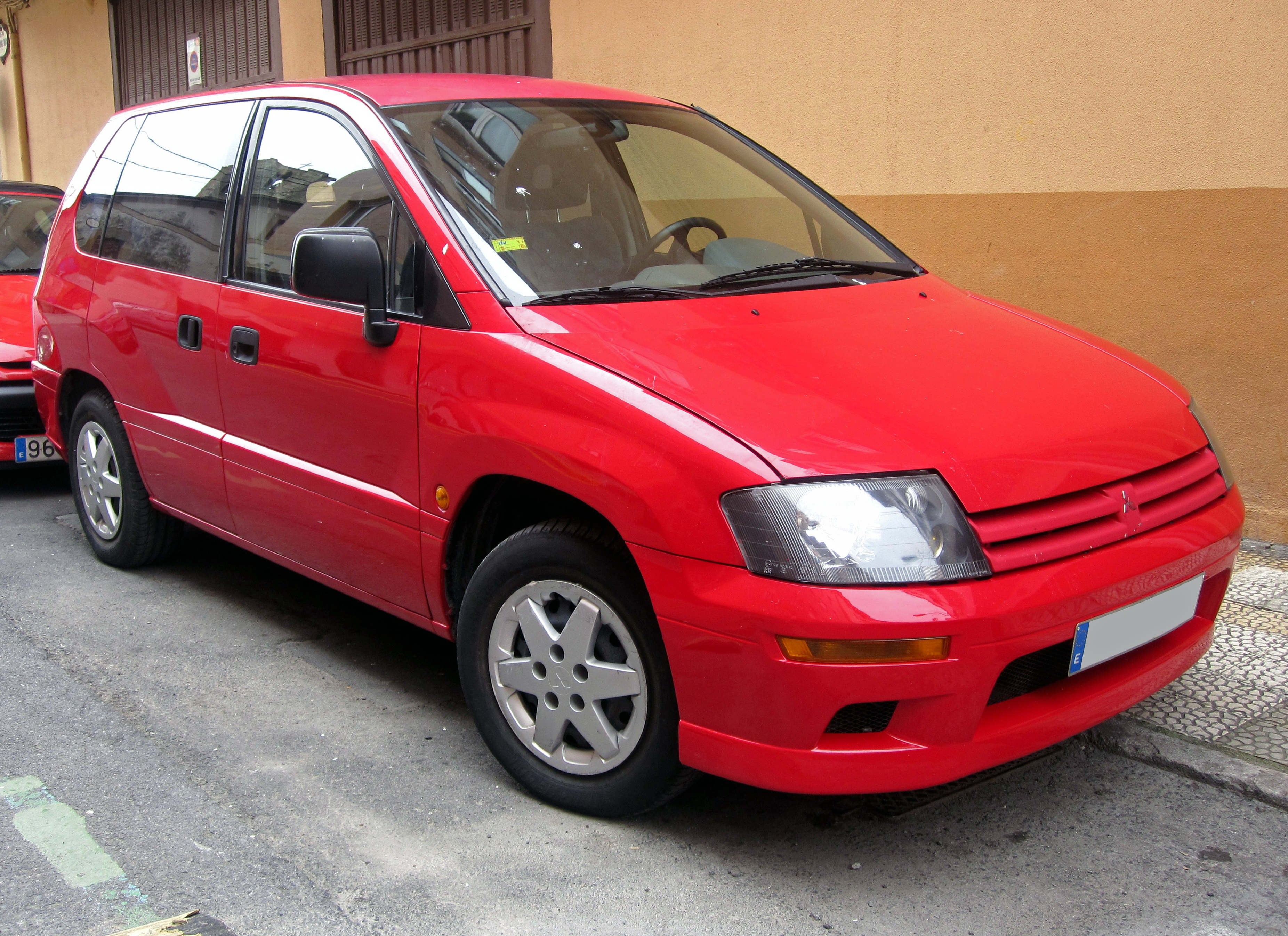 Very rare sight here in Spain, I don't think I have seen many others other than this one. I like the concept but if there's something I never liked that's the fact that it only has one side door...